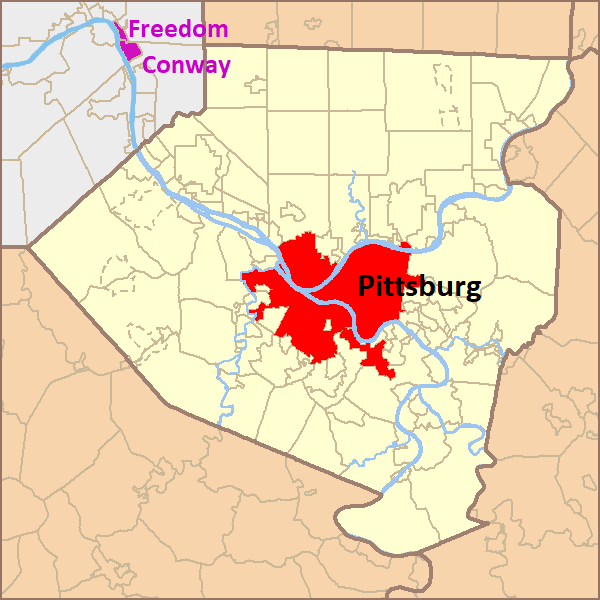 Map highlighting the municipality within Allegheny County, Pennsylvania. In Addidtion highlighting the boroughs of Conway and Freedom in Beaver County (top left) where the Conway Yard (NS) is located